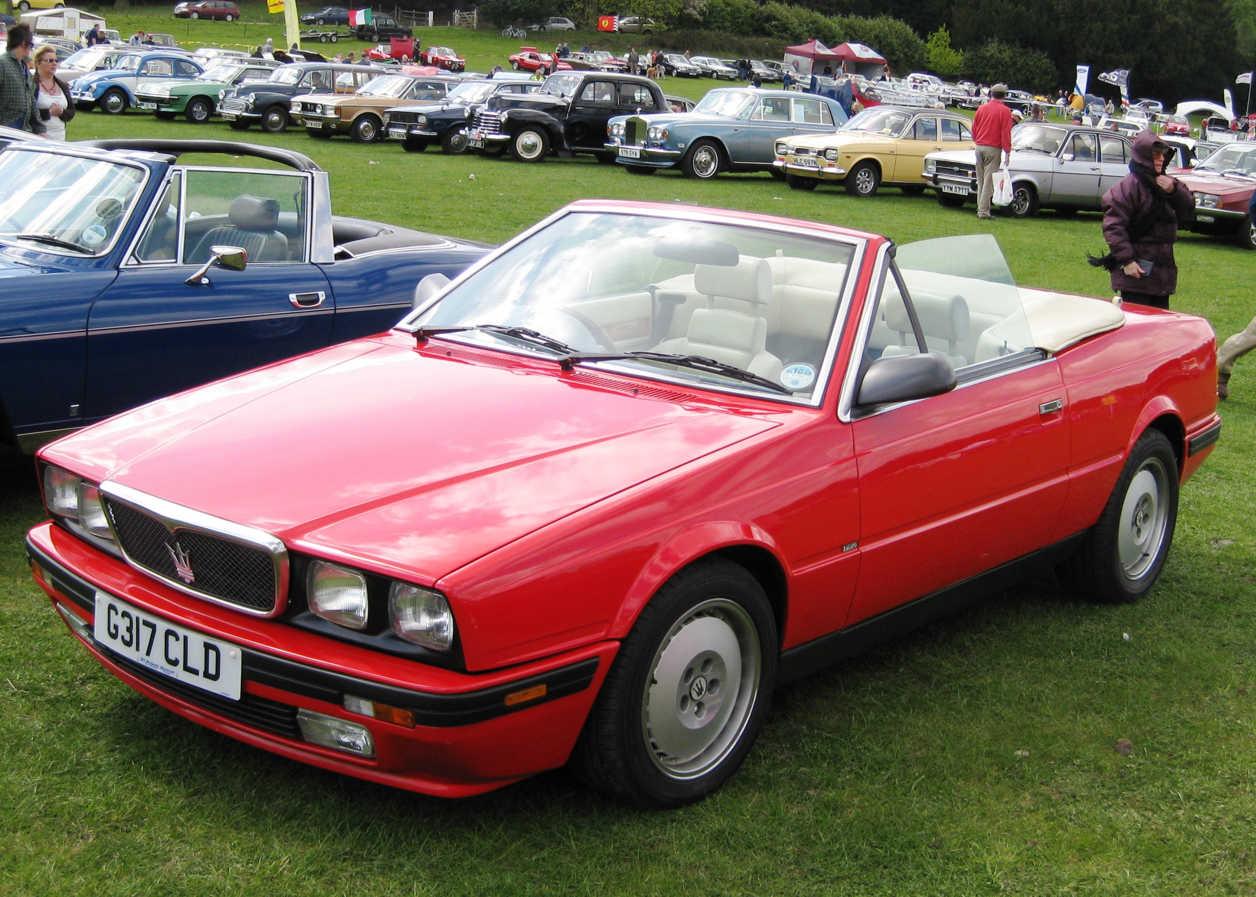 Maserati Biturbo Cabriolet